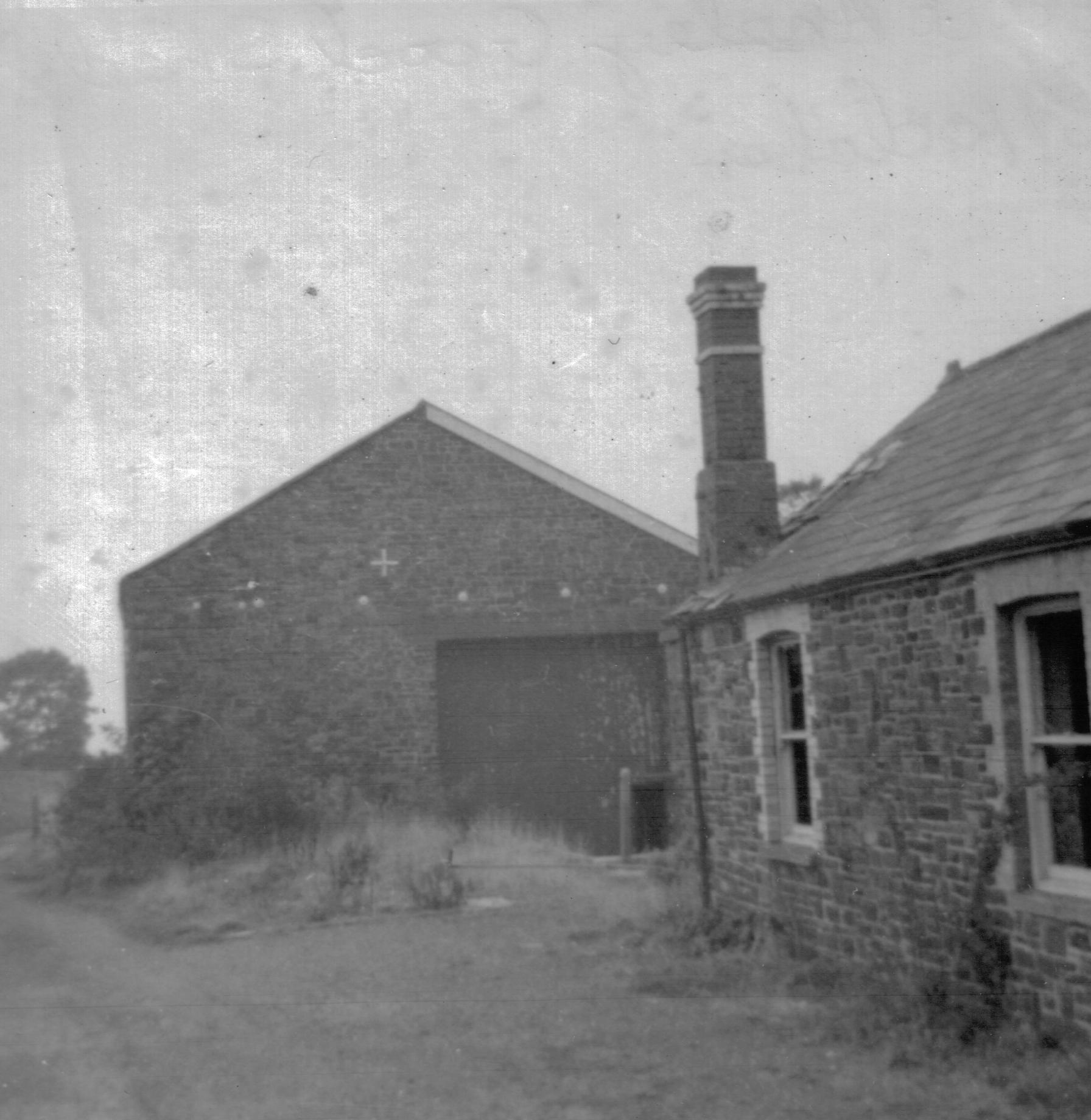 East Anstey railway station goods shed.